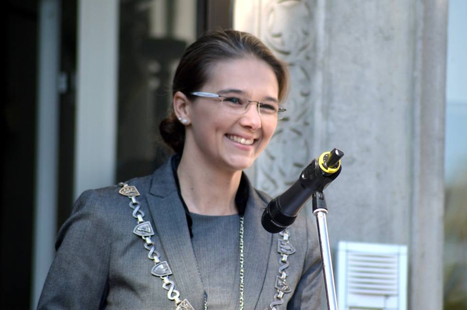 Ramona Schumann at the german National day in 2015